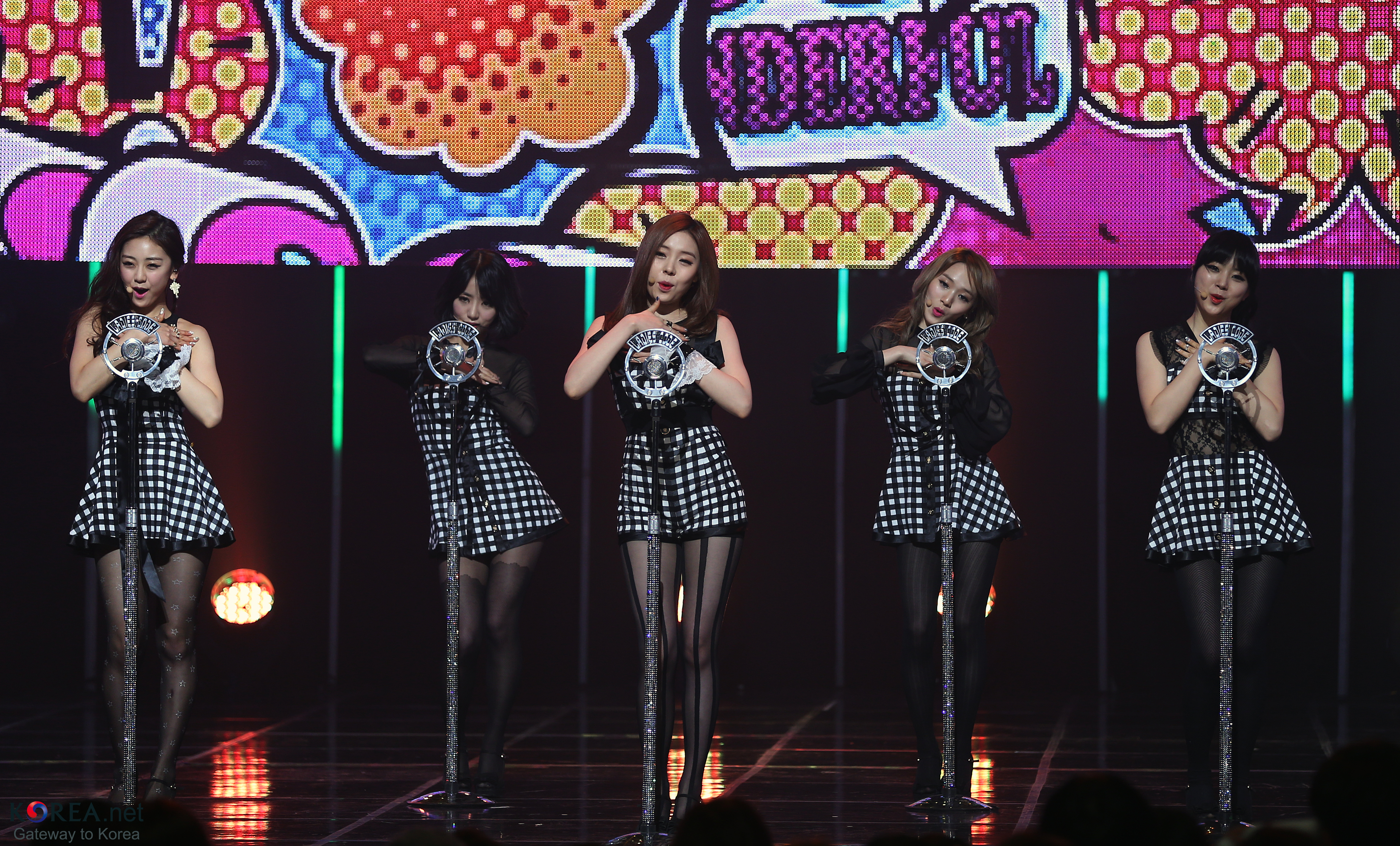 Mcountdown Ladies’ Code ‘So Wonderful’ Rise, So Jung, Ashley, EunB, Zuny CJ E&M Center, Sangam-dong, Mapo-gu, Seoul 2014.03.06. Ministry of Culture, Sports and Tourism Korean Culture and Information Service ( Jeon Han 엠카운트다운 생방송 레이디스 코드(리세, 소정, 애슐리, 은비, 주니) ‘소 원더플’ 2014-03-06 CJ E&M 센터 문화체육관광부 해외문화홍보원 코리아넷 전한